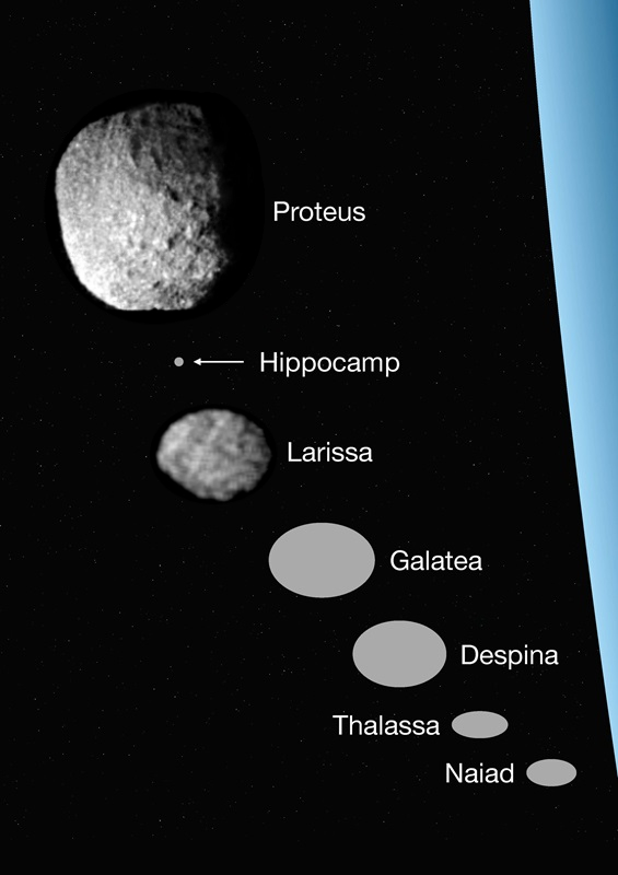 Size comparison of Neptune's seven inner moons, ordered by orbital distance. Proteus and Larissa images from and